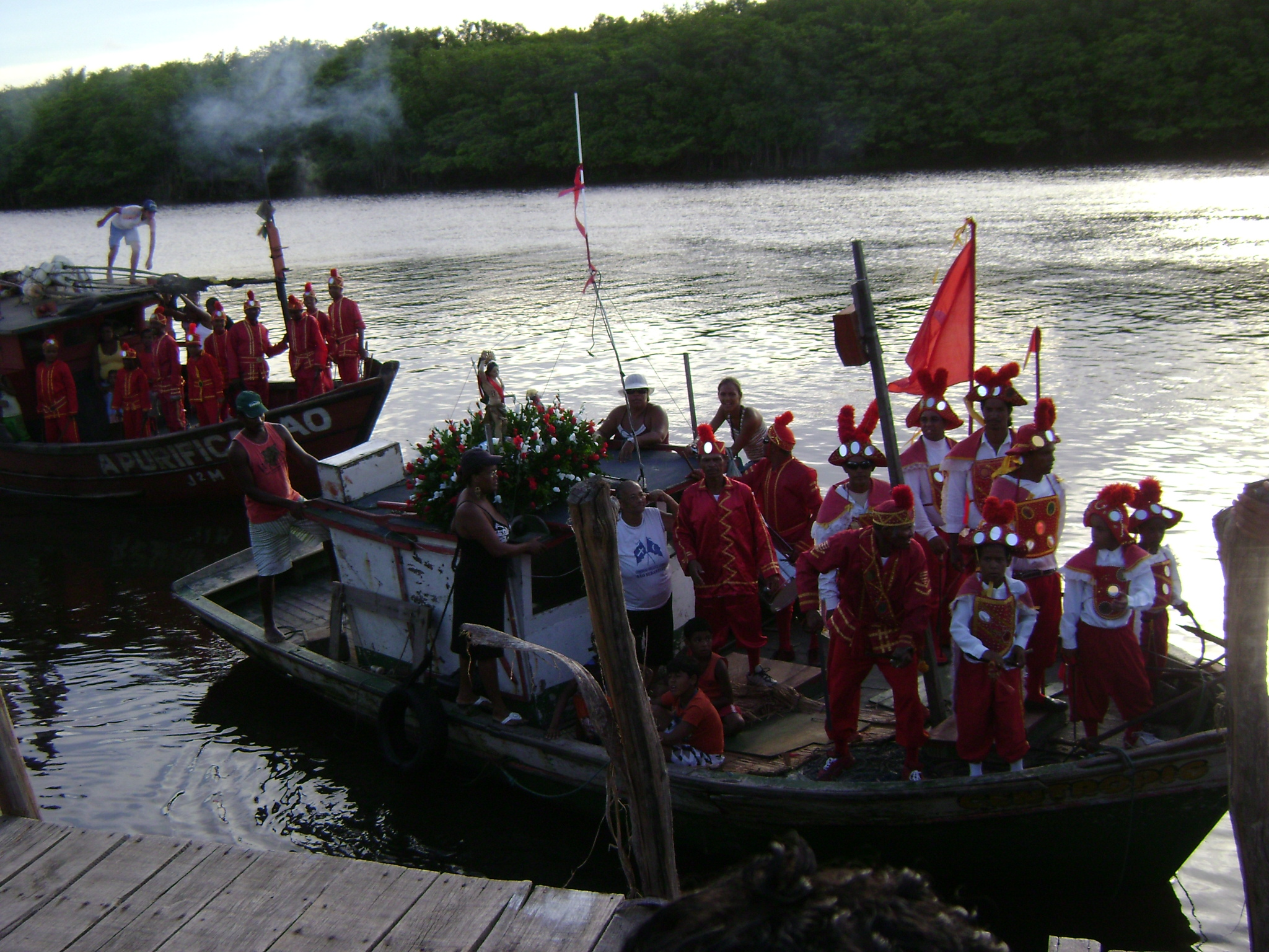 Cavalhada in Alcobaça, Bahia